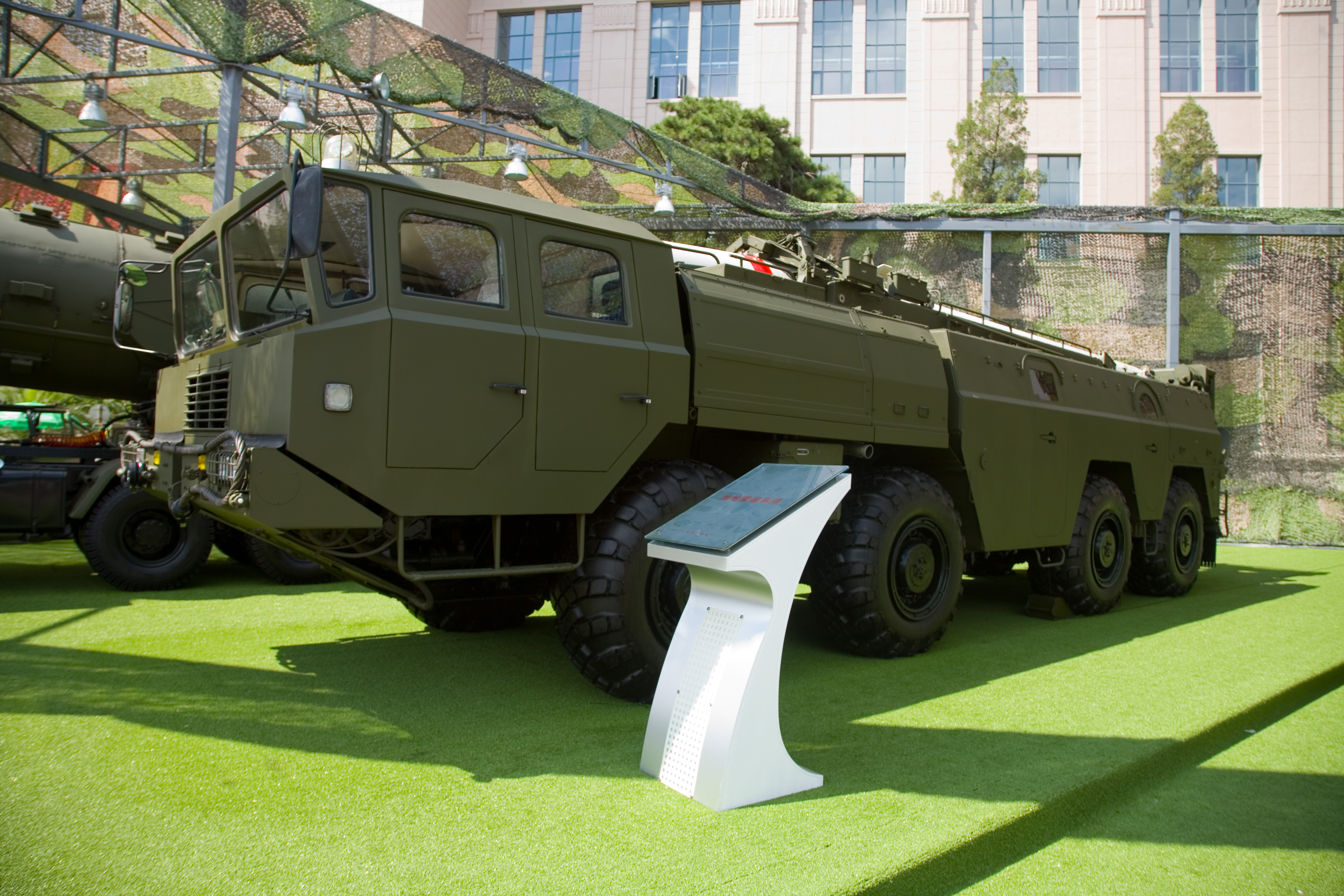 A Chinese DF-11 transporter errector vehicle on display at the "Our troops towards the sky" exhibition at the Beijing Military Museum.